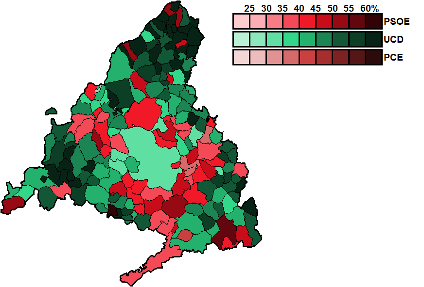 Most-voted party in Madrid municipalities, showing vote share obtained, in the Spanish general election, 1979.